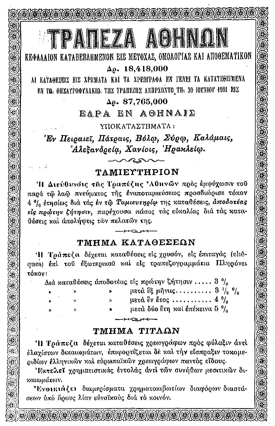 Advertisement of the Athens Bank (Trapeza Athinon) in 1902